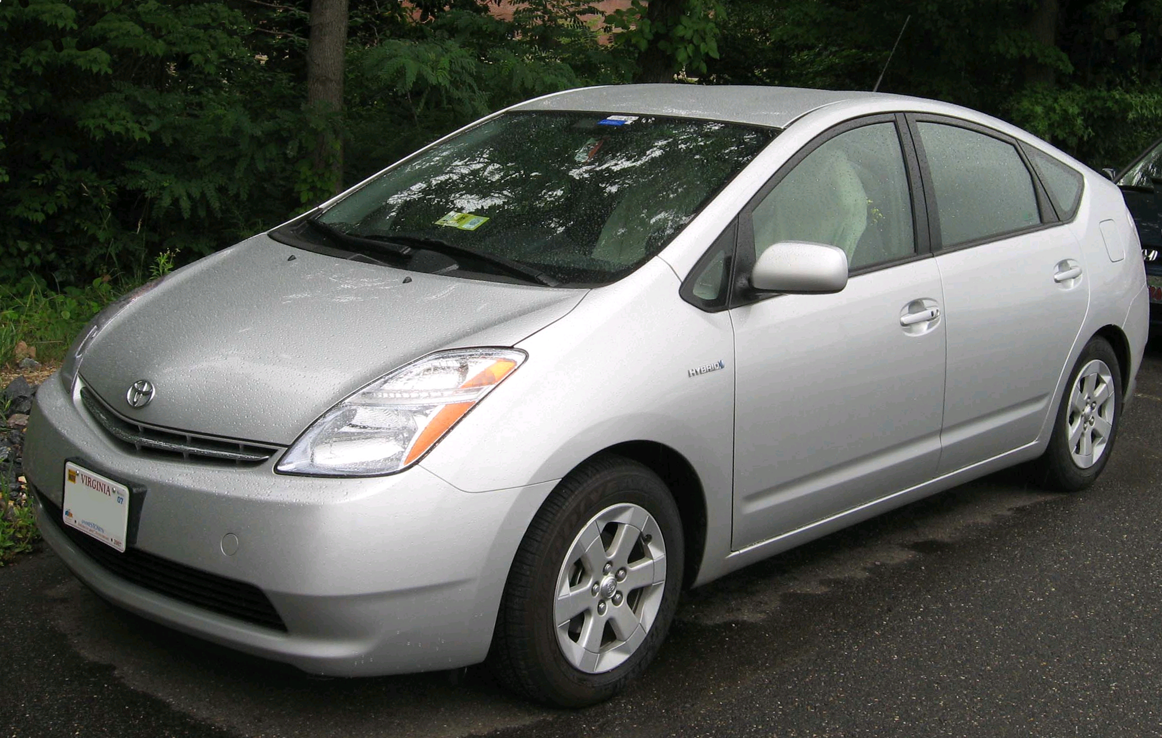 2004-2007 Toyota Prius photographed in College Park, Maryland, USA.